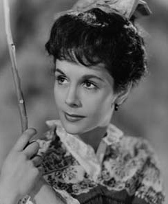 Delia Garces